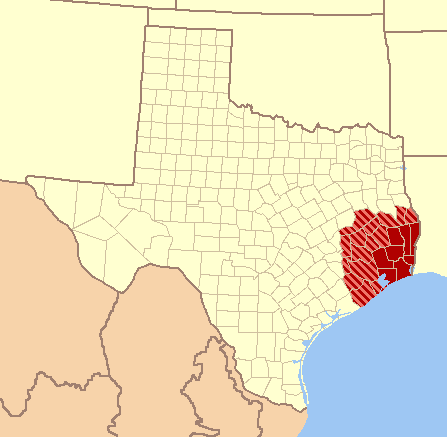 I made this.